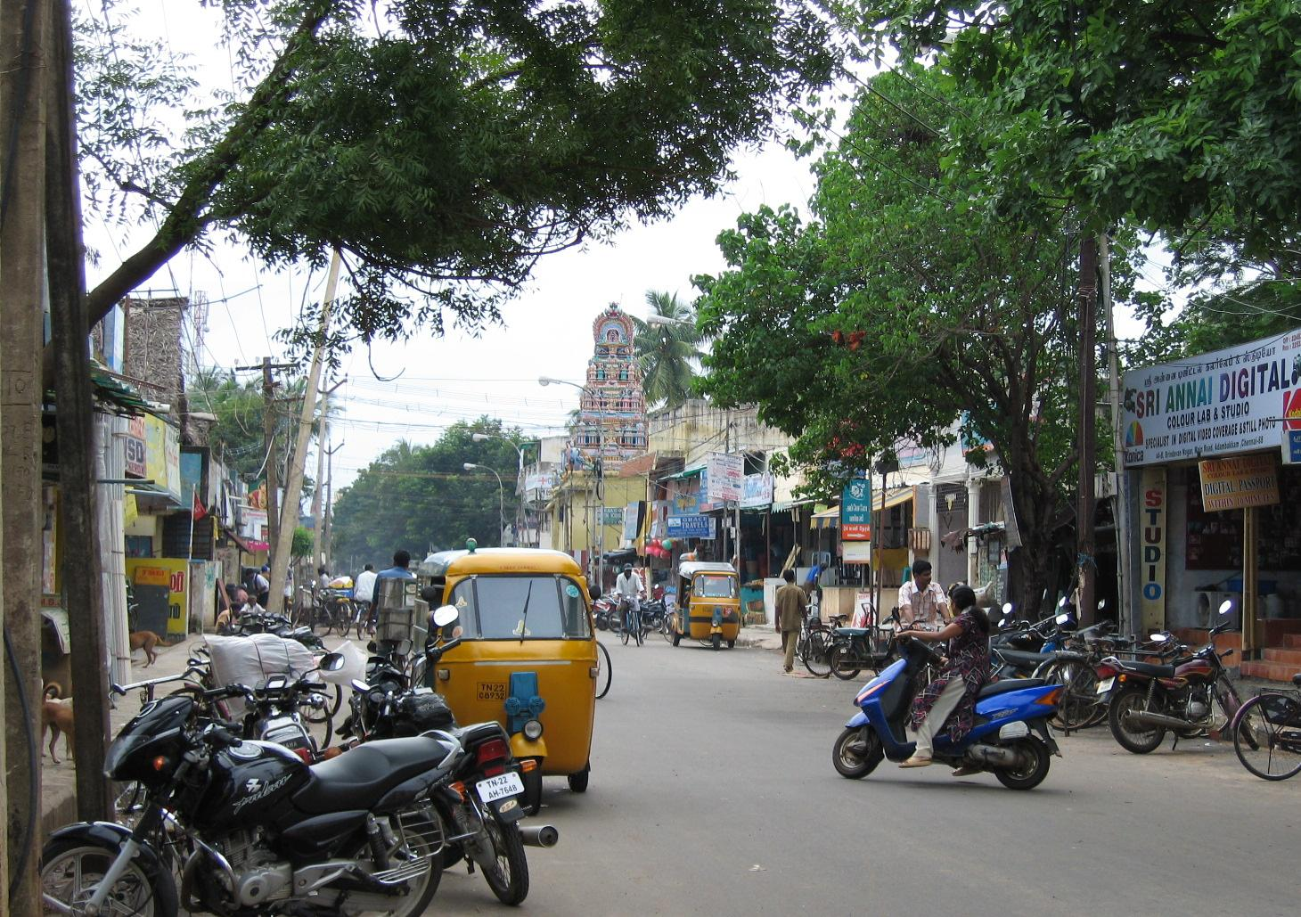 A view of the Brindavan Nagar Main Road in Adambakkam, Chennai, India. Own work, Licensed as attribution, sharealike.